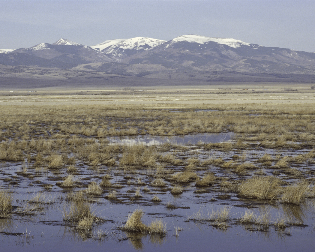 Alamosa/Monte Vista National Wildlife Refuge [1]